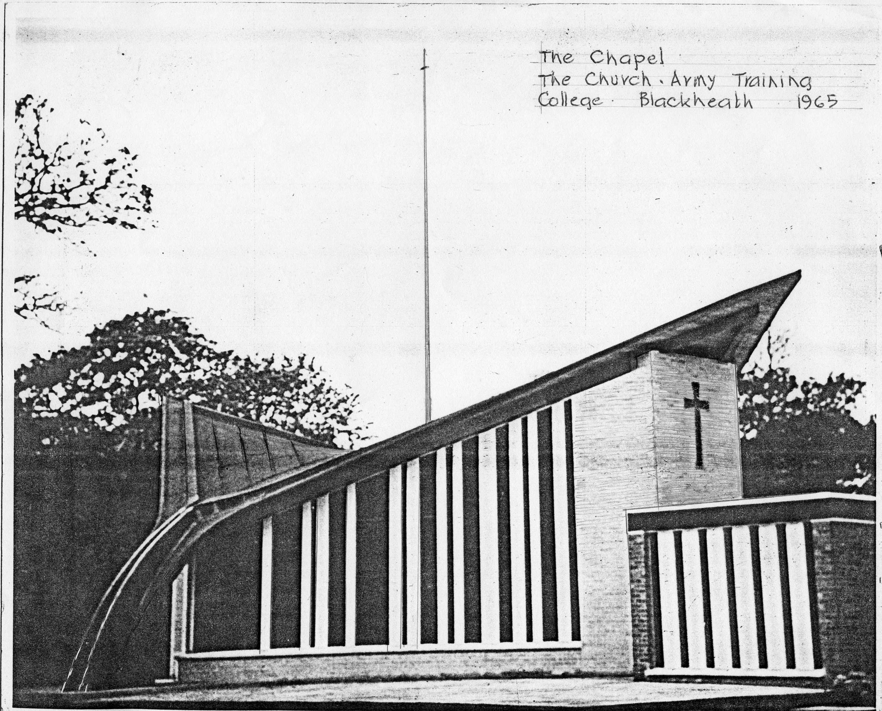 1965 drawing by architect E.T. Spashett ARIBA of south-east elevation of the Church Army Chapel at Vanburgh Park, Blackheath, London. Originally built as the Wilson Carlile Training College Chapel, for the Church Army headquarters which were on that site 1965-1978. The architectural firm hired for the job was Austin Vernon & Partners of Dulwich, but the design was carried out entirely by E.T. Spashett who was one of its team. The spire is now missing, but it can be seen in this contemporary print, which was photocopied and clarified in ink by the architect in 1991. The chapel is now owned by Blackheath High School. The spire, manufactured by British Aerospace in Bristol, was the tallest sectional aluminium spire of its time. The building is locally listed as a building of great architectural significance by Greenwich Council.